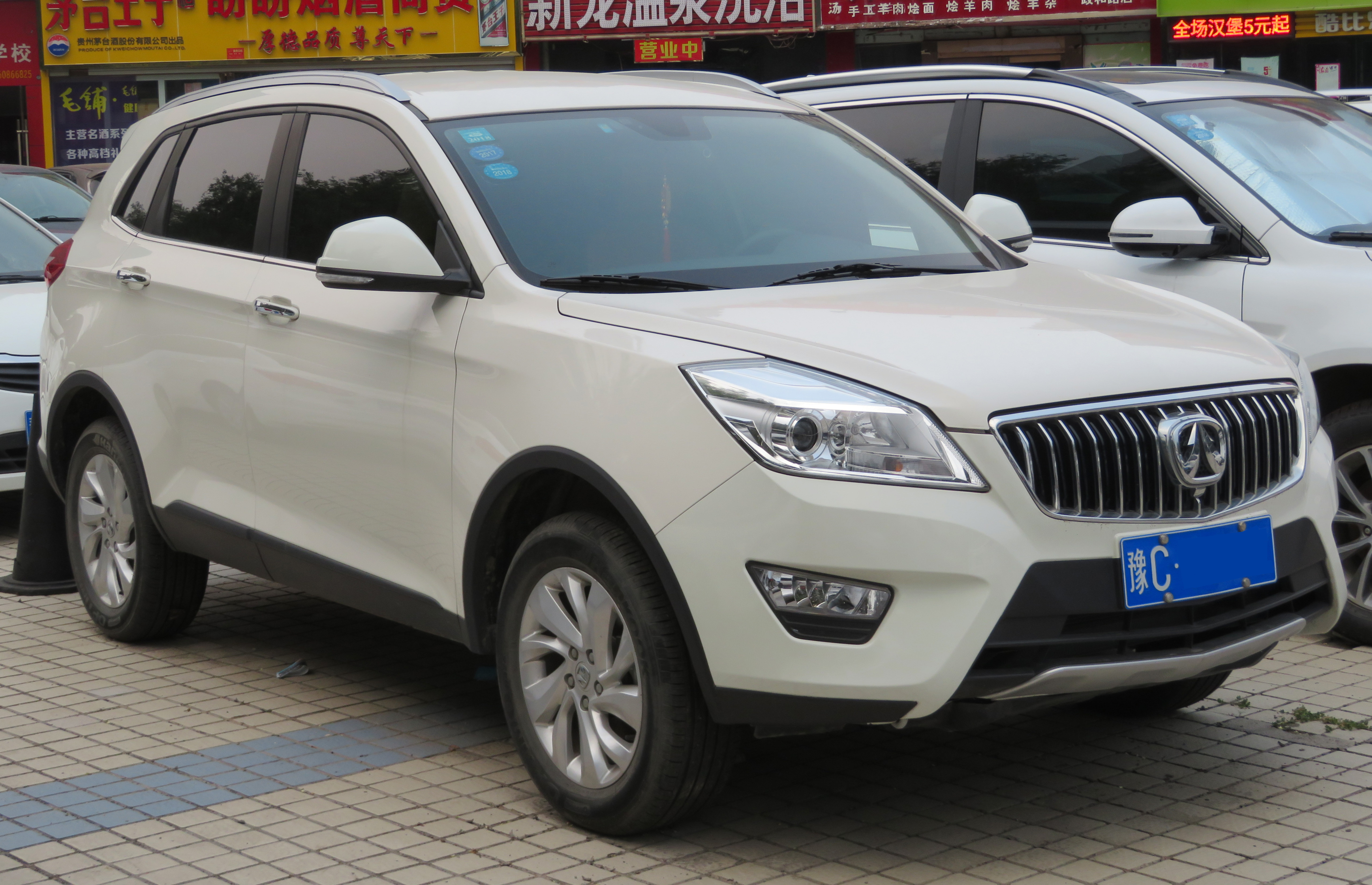 A BAIC Weiwang S50 photographed in Luoyang, Henan province, China